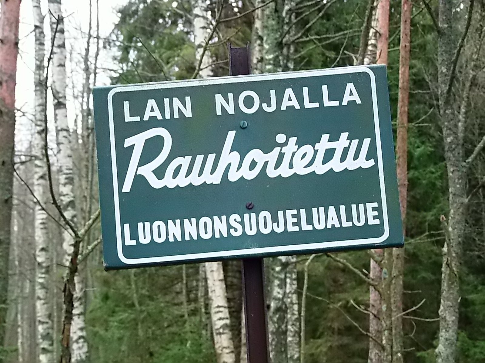 Protection alert. In the forest a protected under the law.